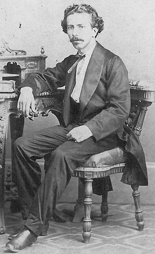 Antônio Francisco Pereira, Barão de Bujari. (Col. Francisco Rodrigues; FR-2950) Alberto Henschel; Fundação Joaquim Nabuco, cropped and grayscaled